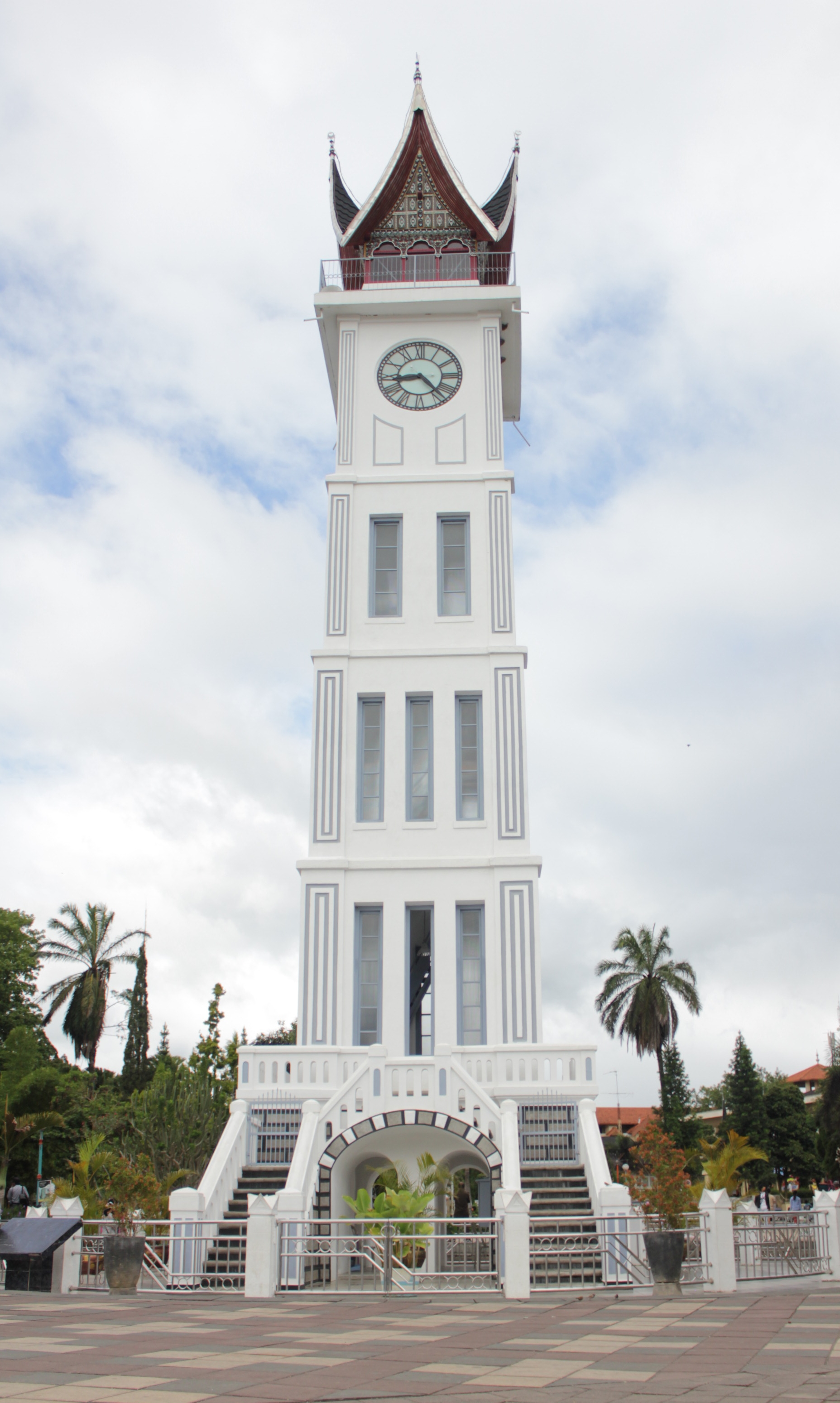 Jam Gadang front entanceBahasa Indonesia: Jam Gadang di kota Bukittinggi dilihat dari Pasar Atas.